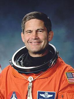 Portrait of Paul Lockhart American astronaut